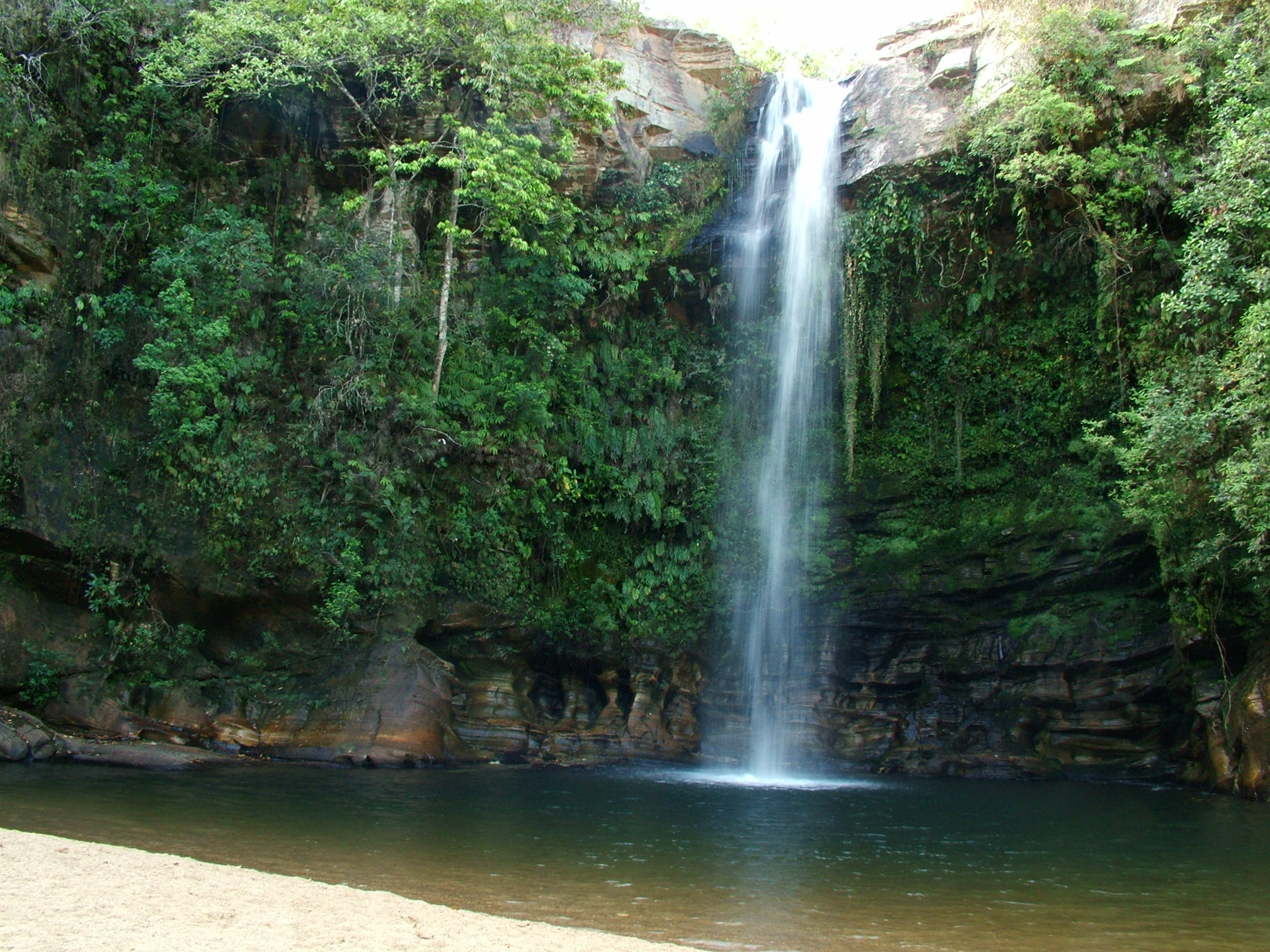 Cachoeira do Abade, Pirenópolis, Goiás, Brazil